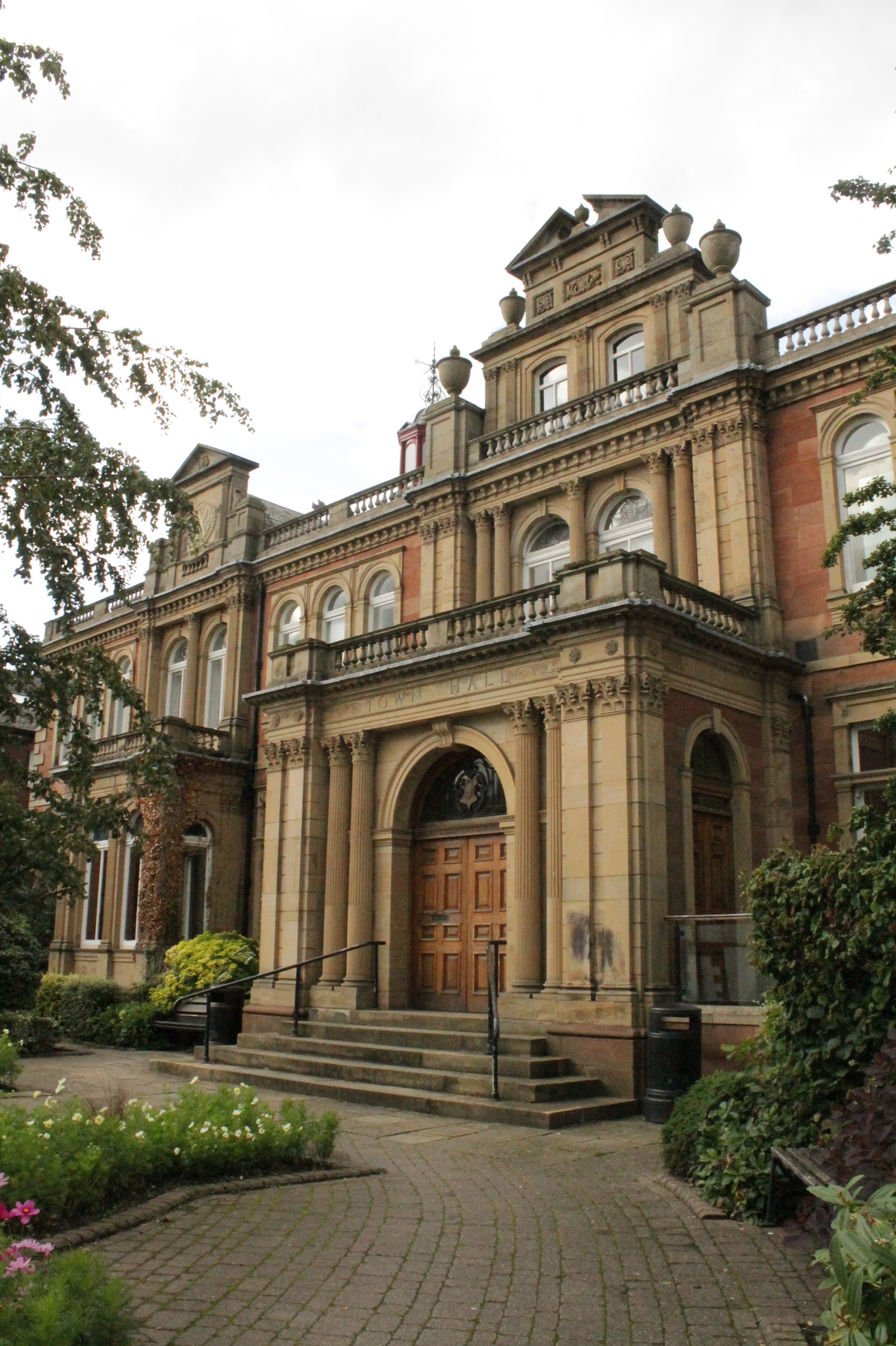 Penrith Town Hall, Cumbria